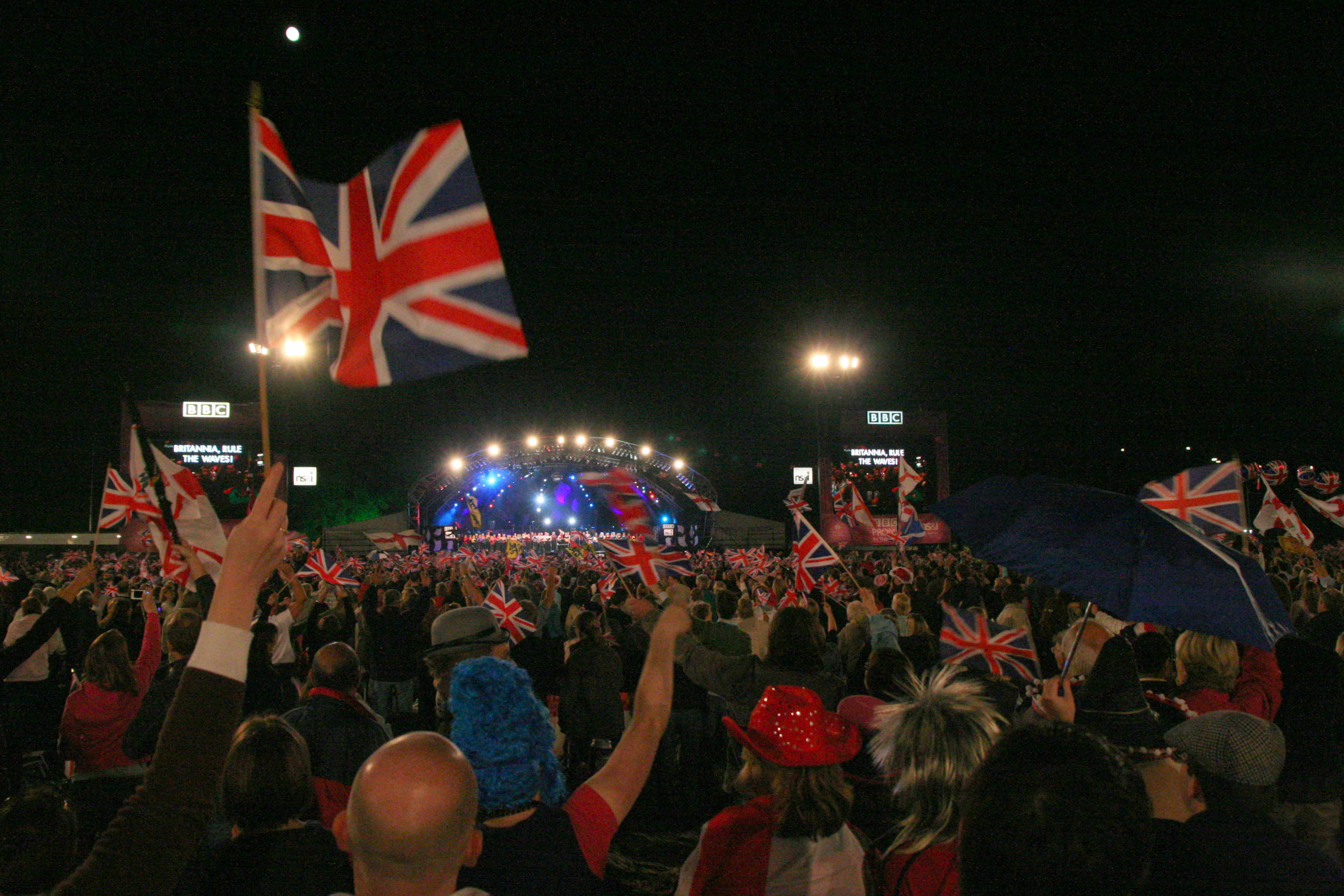 "Rule, Britannia!" at Proms in the Park 2008.